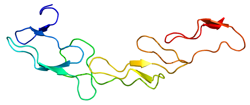 Structure of protein CD40.Based on PyMOL rendering of PDB 1CDF.